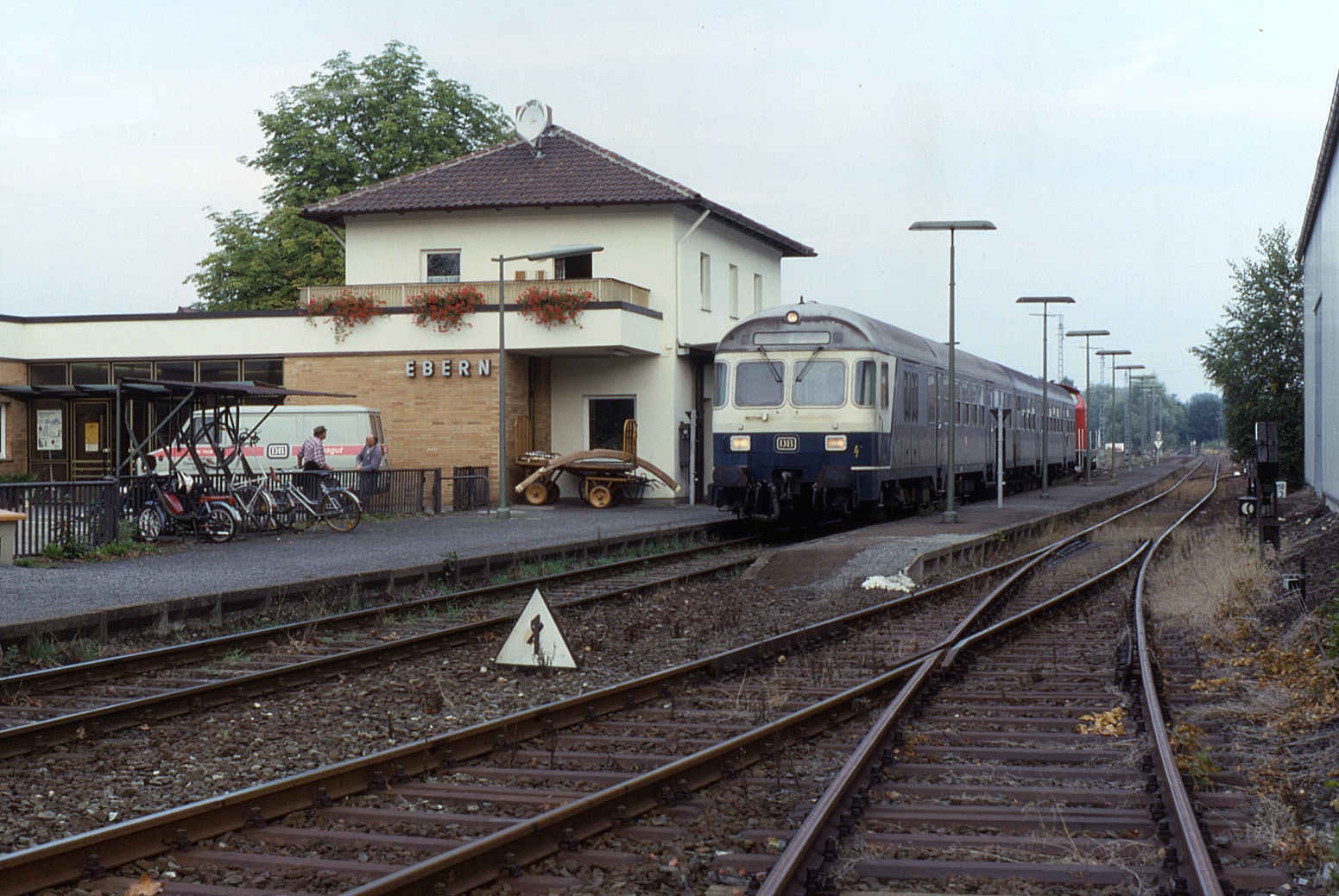 Standard DB branch line train for many years were class 211s and 212s on push-pull sets. For a change I've posted a photo of the driving trailer which was leading on train 8711, 09:52 Ebern to Bamberg. For the record, the loco which can just be seen at the far end of the train was 211.054